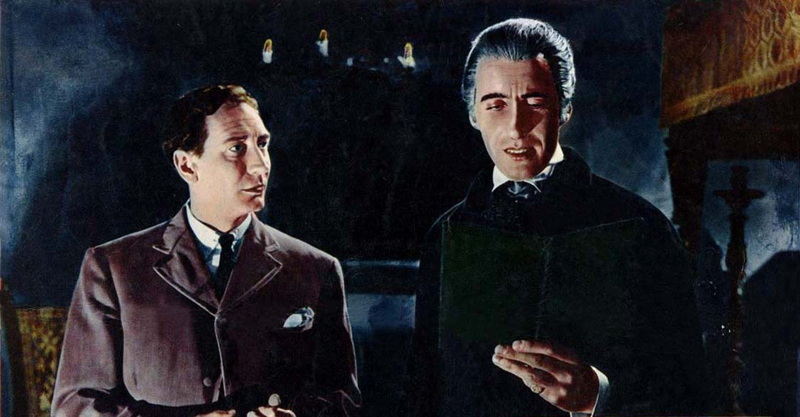 Cropped and edited version of this file, featuring Christopher Lee as Dracula. This image is in the public domain, as no copyright notice was attached to the original.